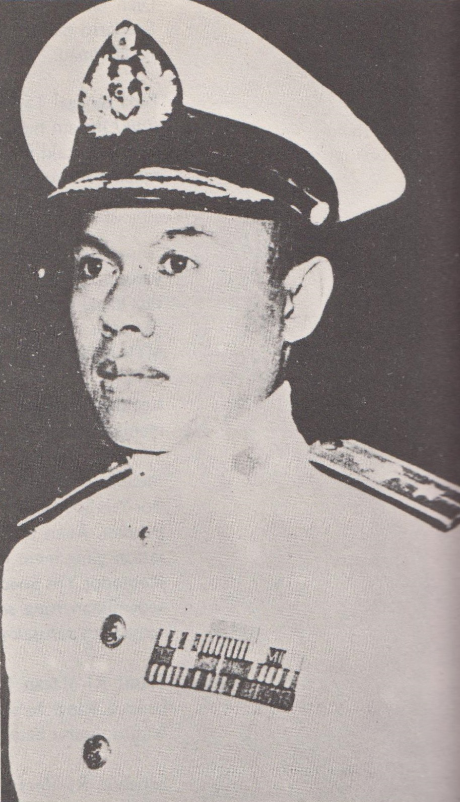 Indonesian national hero Commodore Yosaphat "Yos" Sudarso